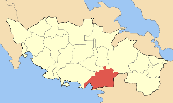 Locator map of Plateon municipality (Δήμος Πλαταιών) at Voiotias perfecture, Greece.